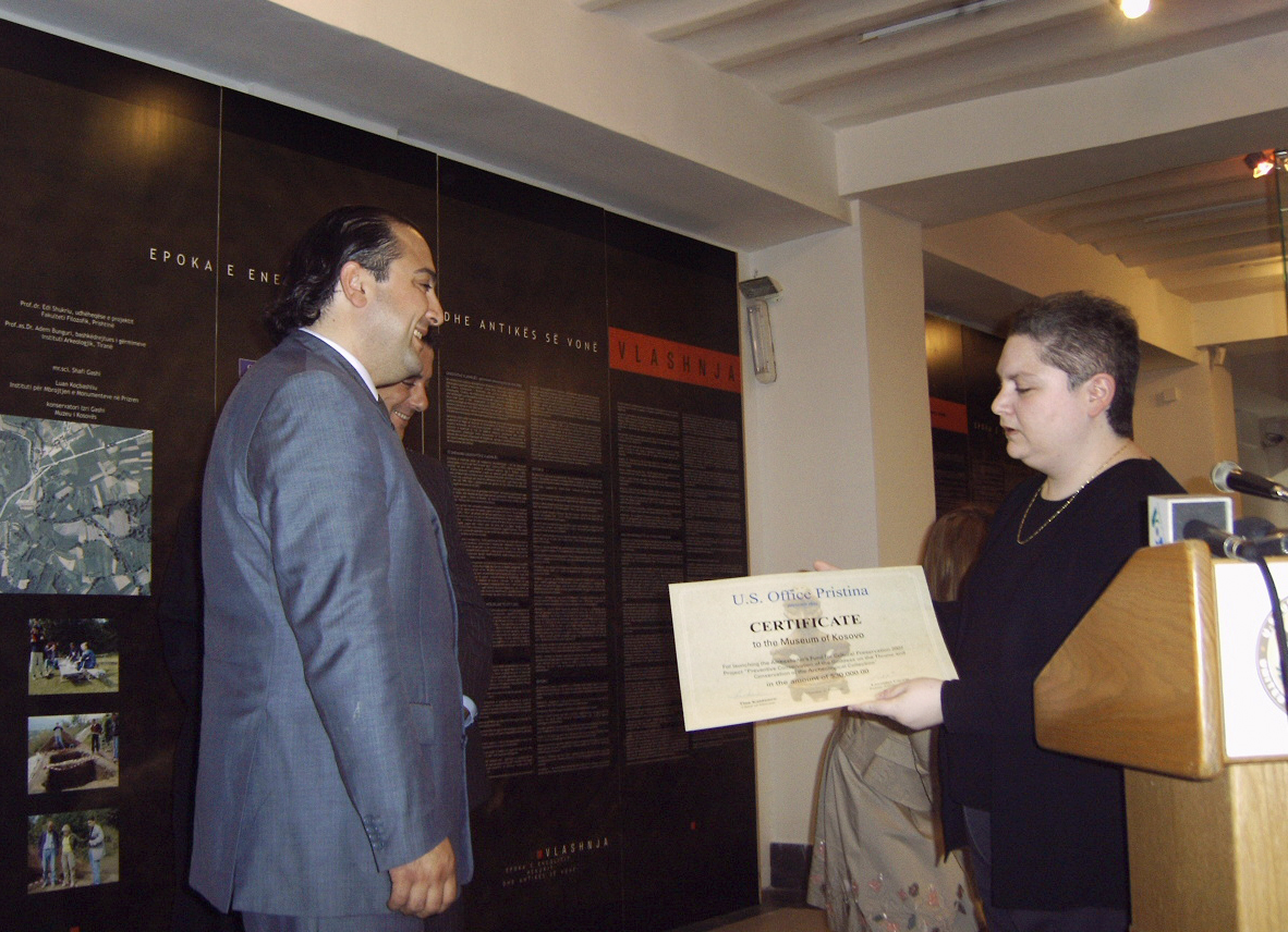 Mbështetja e Zyrës Amerikane për Muzeun e Kosovës. Arbër Hadri (majtas) dhe Tina S. Kaidanow (djathtas) më vonë e emëruar si Ambasadore e Sh.B.A. në Republikën e Kosovës, 2006